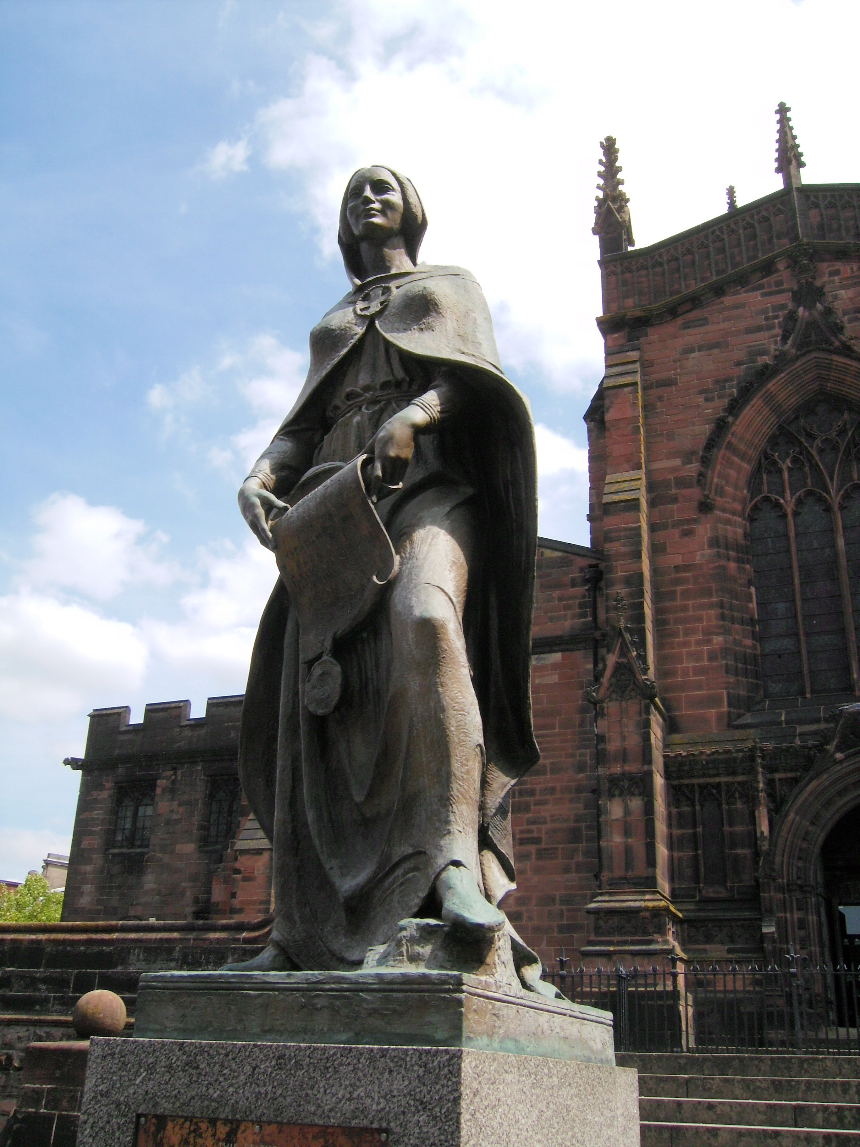 Statue of Wulfrun, eponym of the City of Wolverhampton. By Charles Wheeler. St. Peter's Collegiate church, Wolverhampton, West Midlands, England. Parish of Central Wolverhampton WV1 1TS.